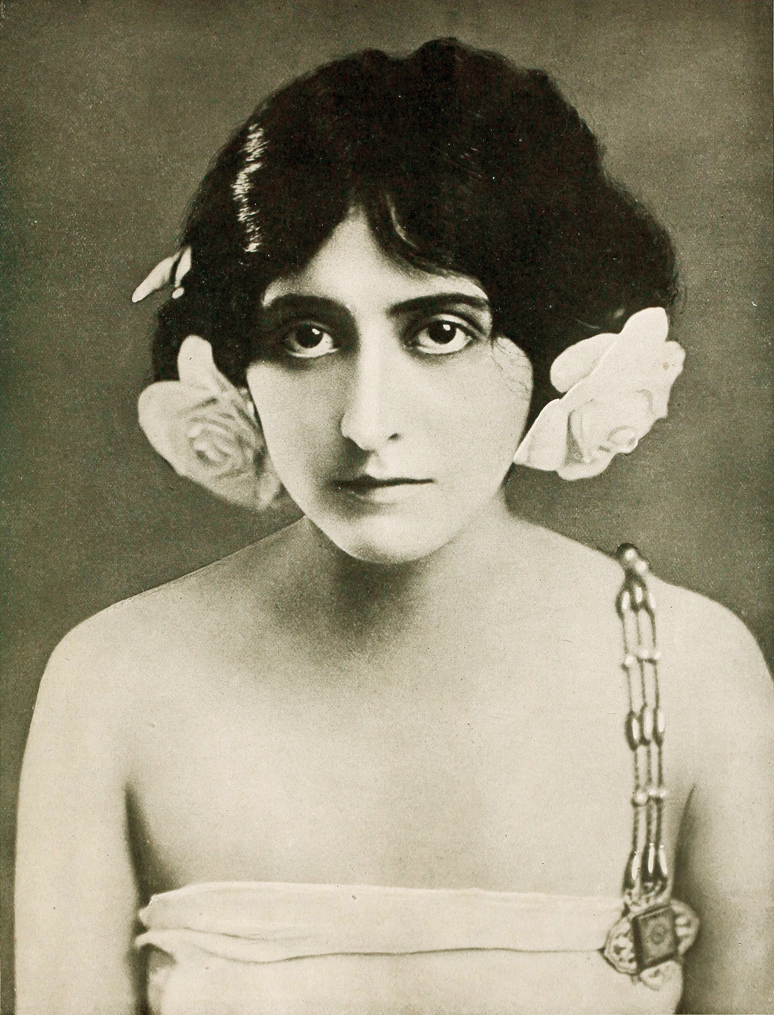 Clara Kimball Young, The Photo-Play Journal July 1916.